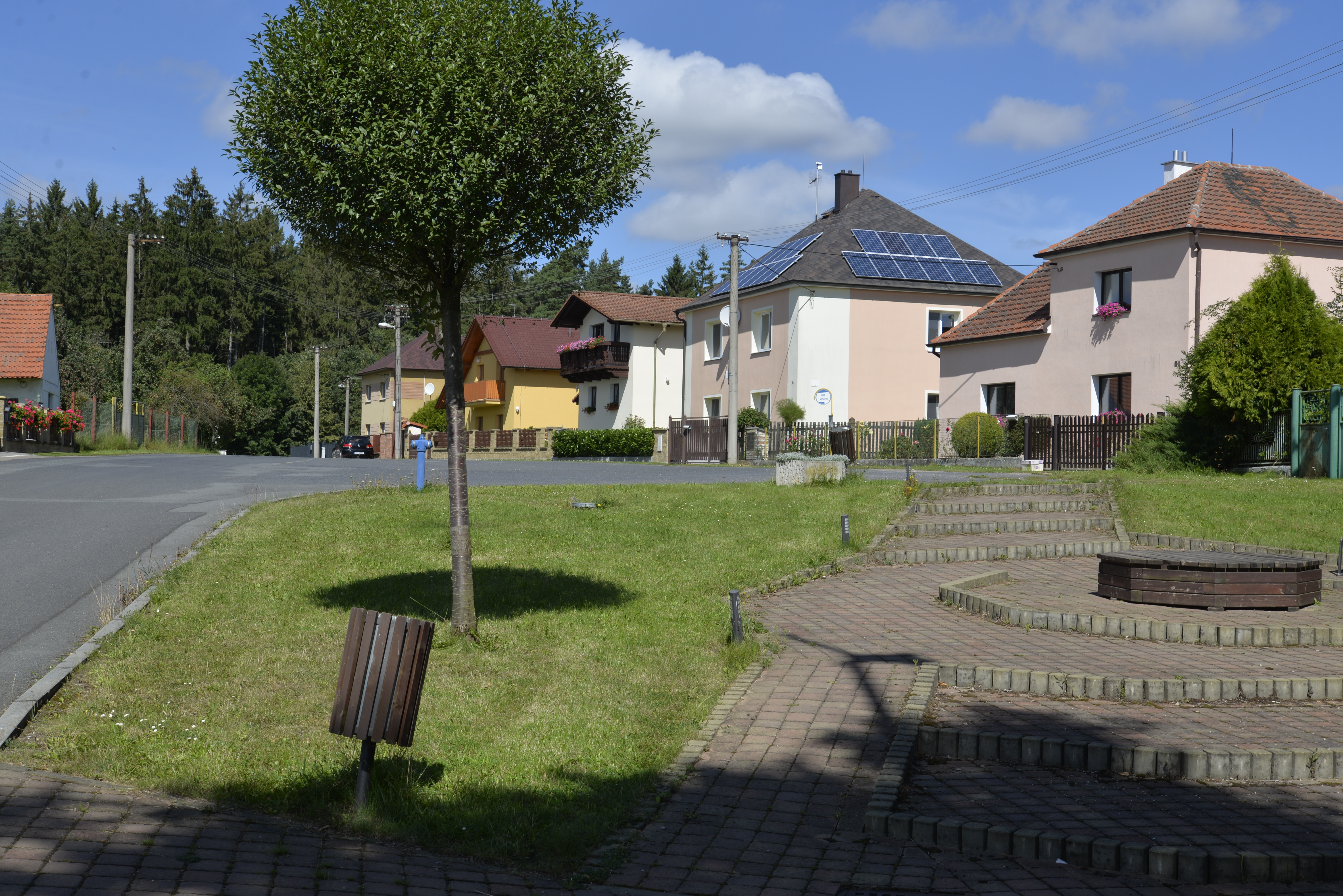 Hradčany - village, part of Chlumčany in Plzeň-jih District